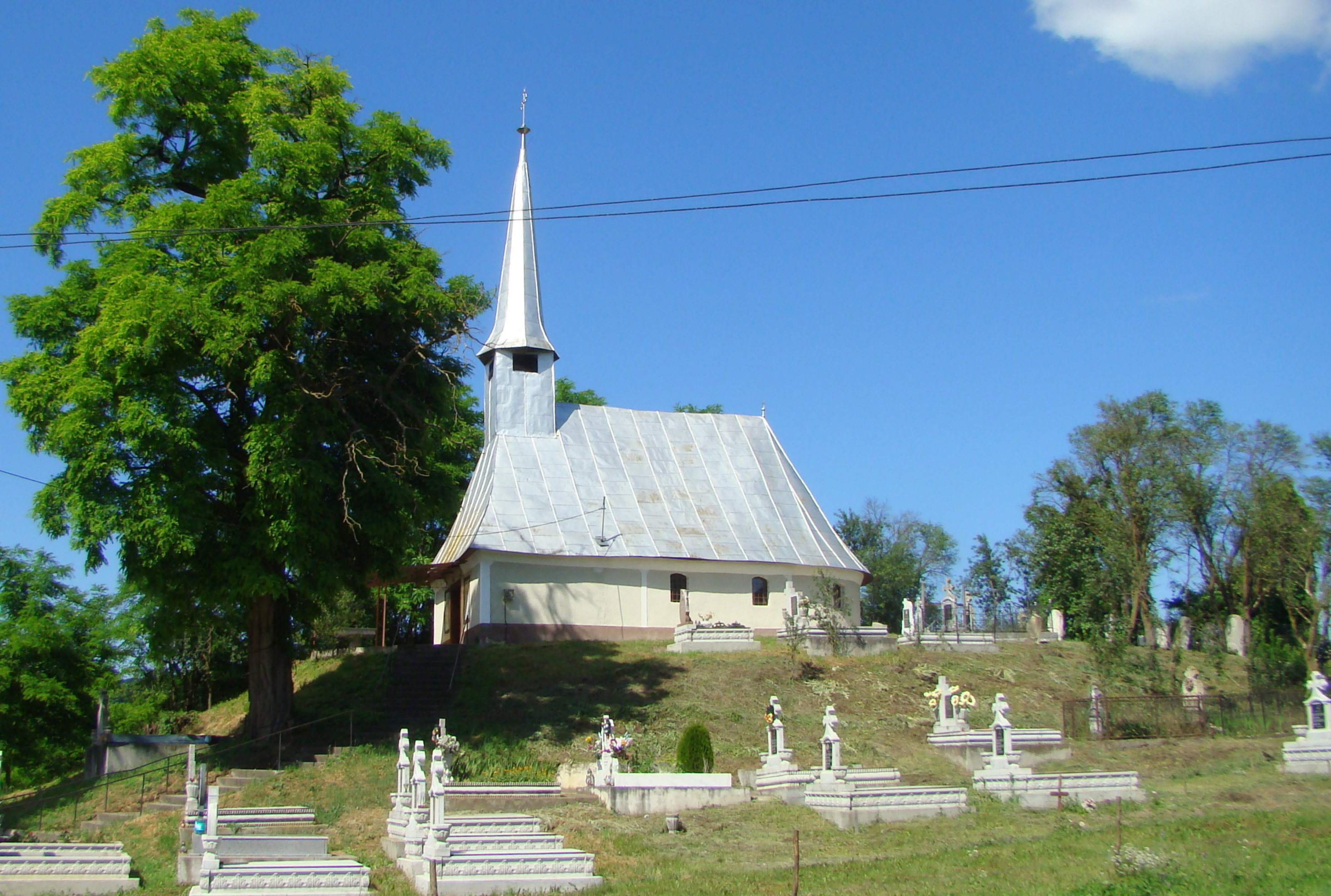 Archangels church in Dârja, Cluj County, Romania